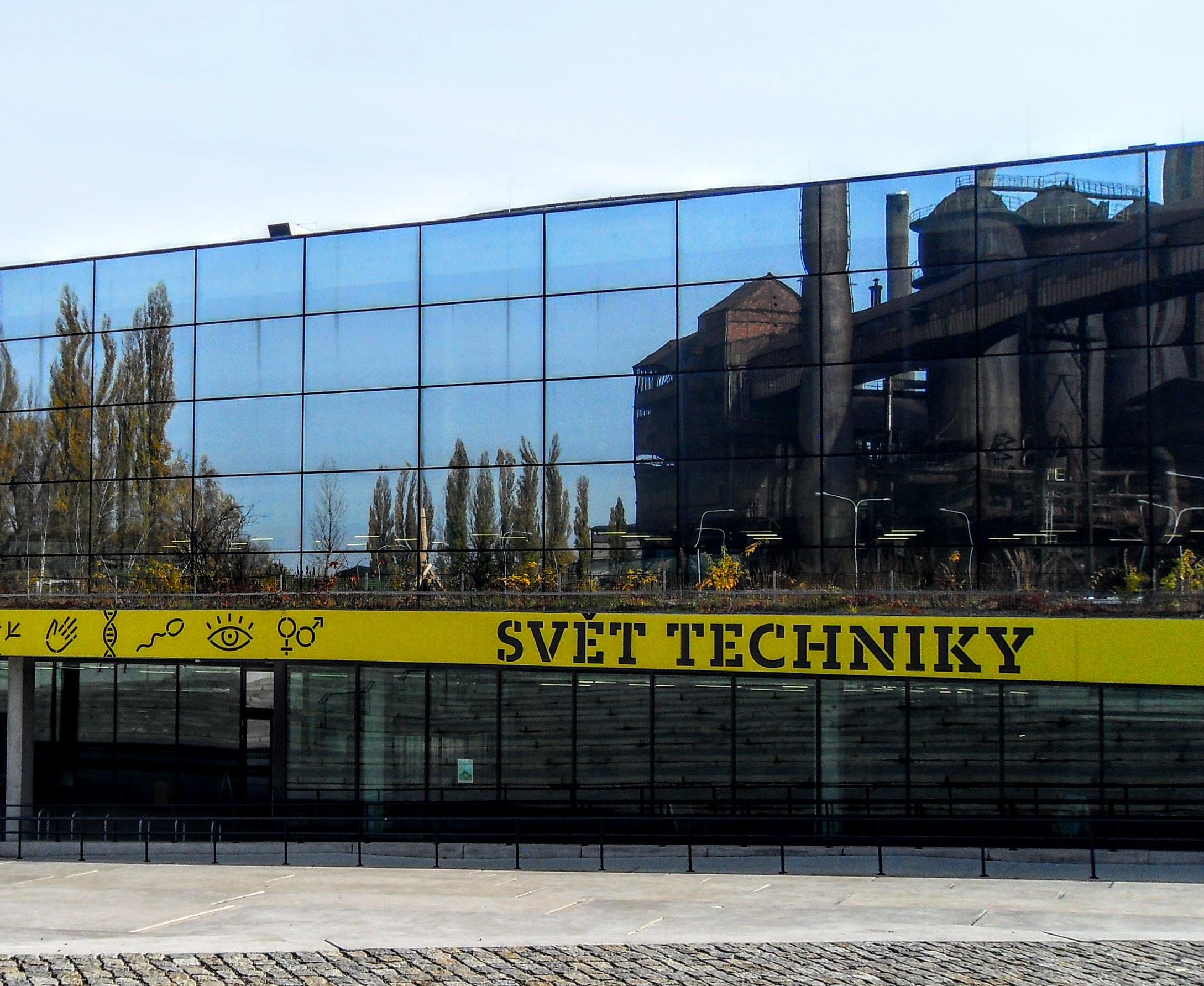 Svět techniky museum